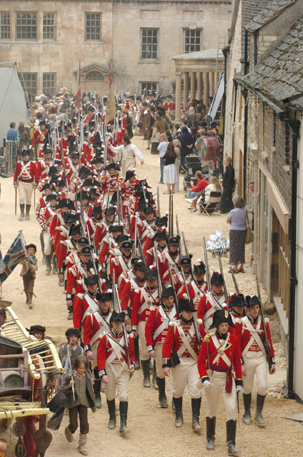 Filming Pride & Prejudice in Stamford Lincolnshire. During September 2004 the market square in front of the Stamford Arts Centre was used for the village of Meryton in the recent production. Several false fronts were erected to hide buildings of the wrong period and several tons of sand used to hide the tarmac